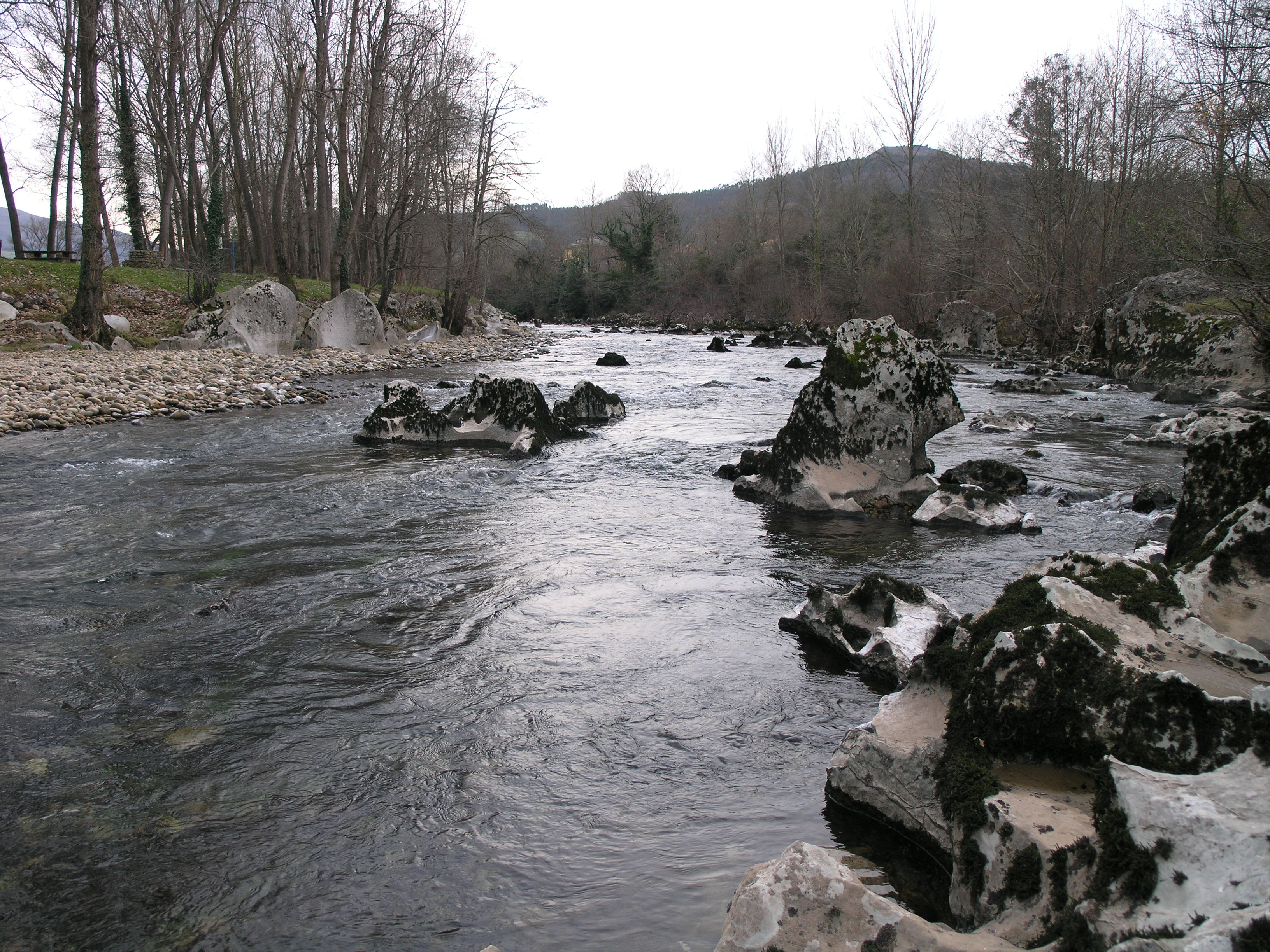 Pas River through Puente Viesgo; on the left side, background, it can be seen Mount Castillo.